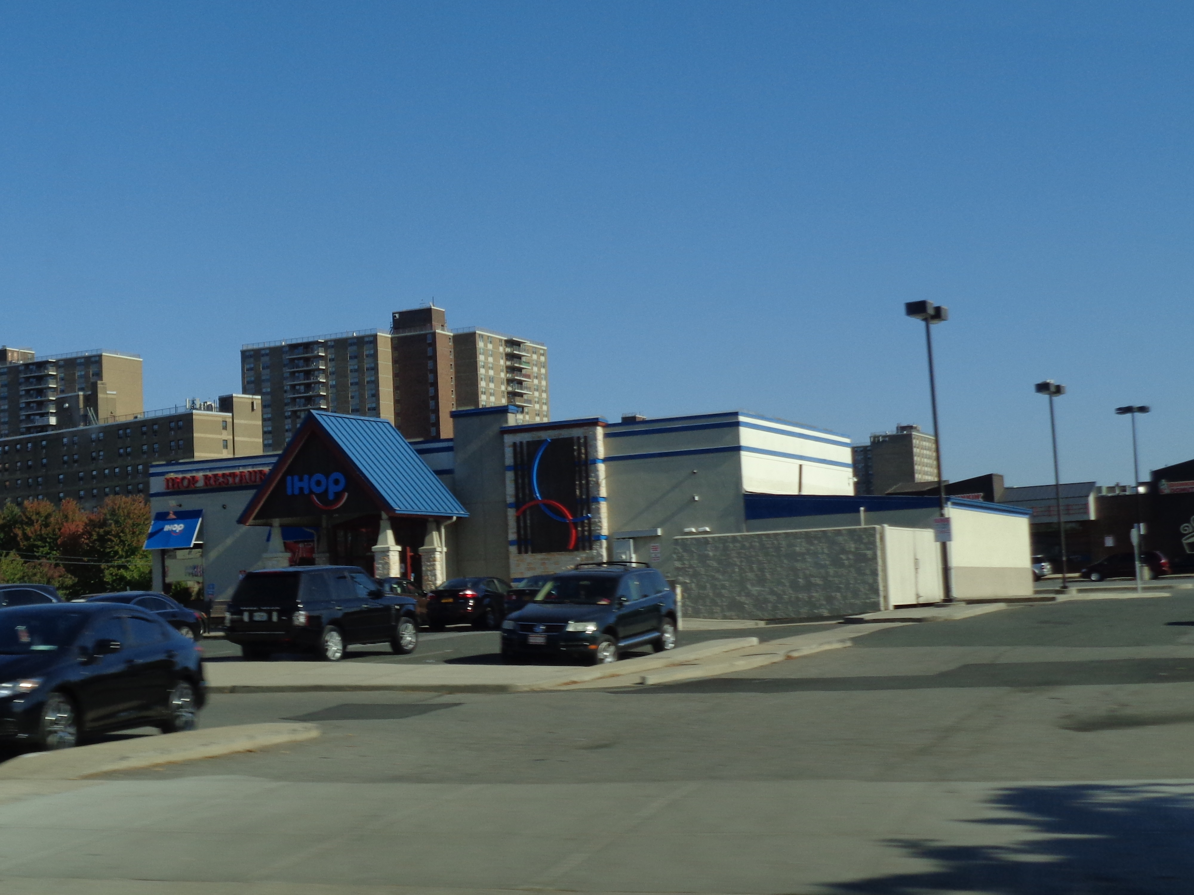 An IHOP restaurant on the south side of Flatlands Avenue between Williams Avenue and Louisiana Avenue in Canarsie and Spring Creek, Brooklyn.